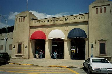 World War Memorial Stadium archway